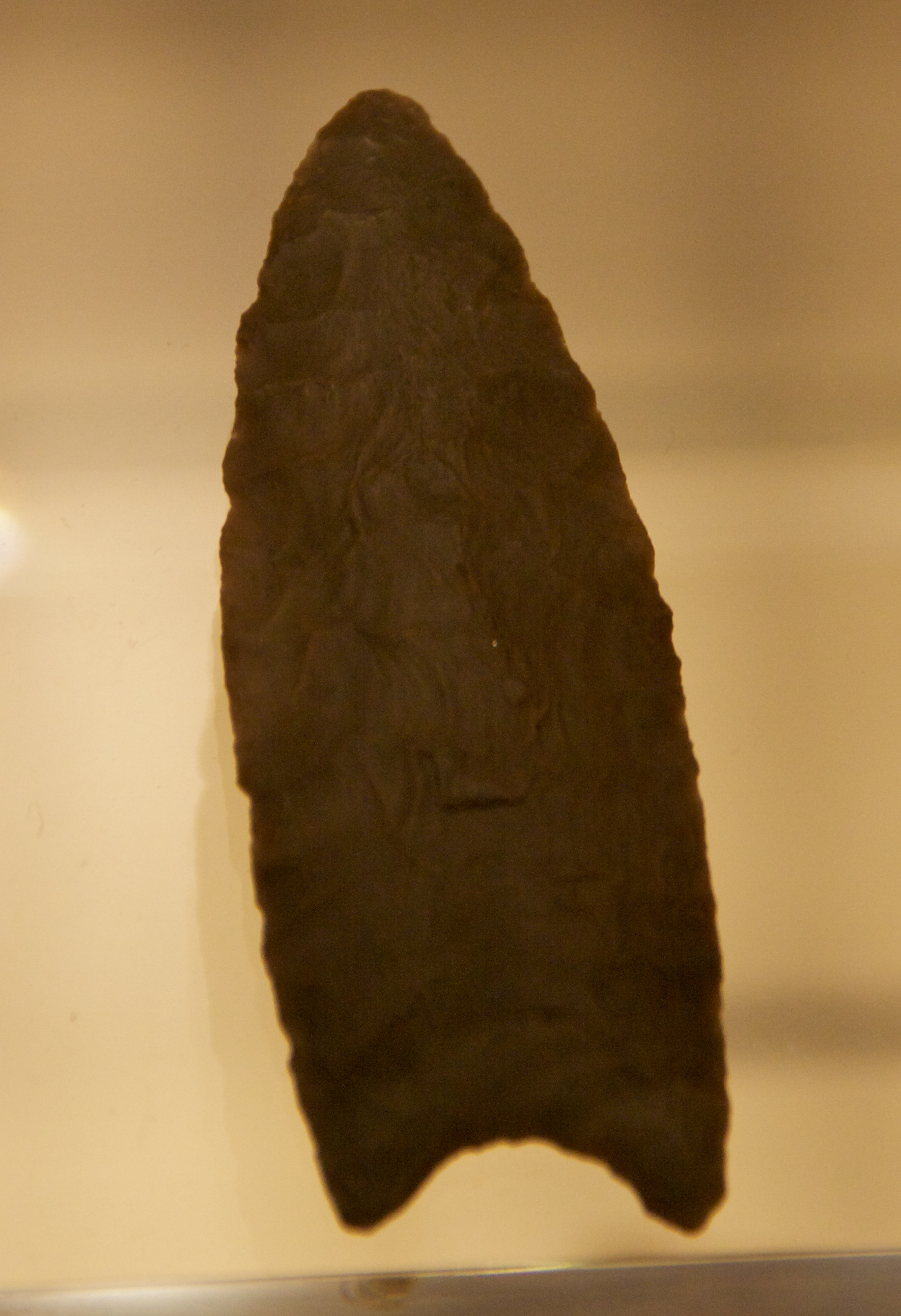 Clovis spear point. Object 5 of 100. British Museum